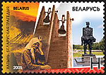 Stamp of Belarus